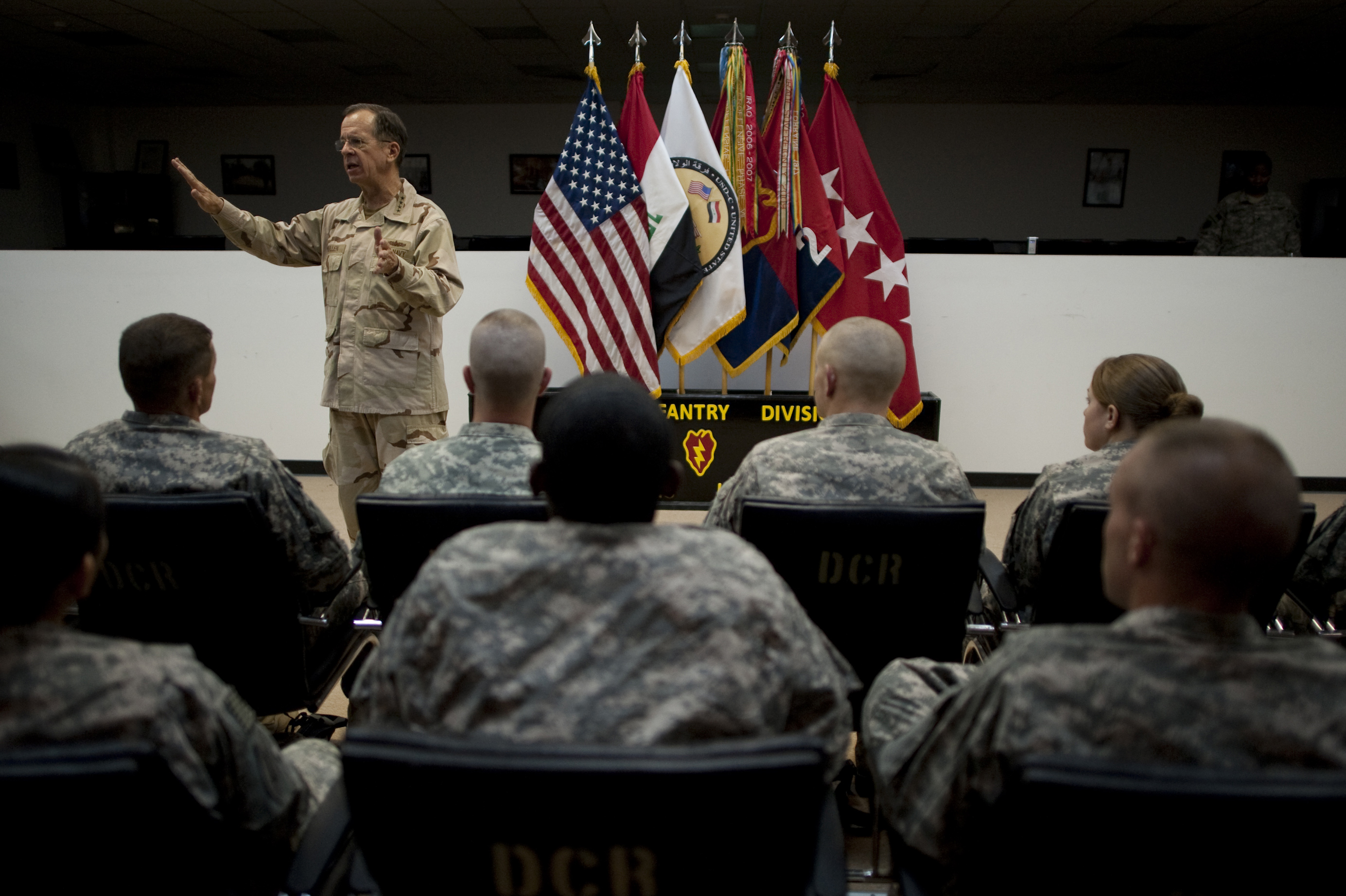 Chairman of the Joint Chiefs of Staff Adm. Mike Mullen addresses soldiers assigned to the 1st Infantry Division's 2nd Advise and Assist Brigade at the U.S. Division Center at Camp Liberty, Iraq, on April 22, 2011. Mullen is in the Central Command area of operation supporting a USO tour to the region and talking to counterparts and service members stationed in the area.